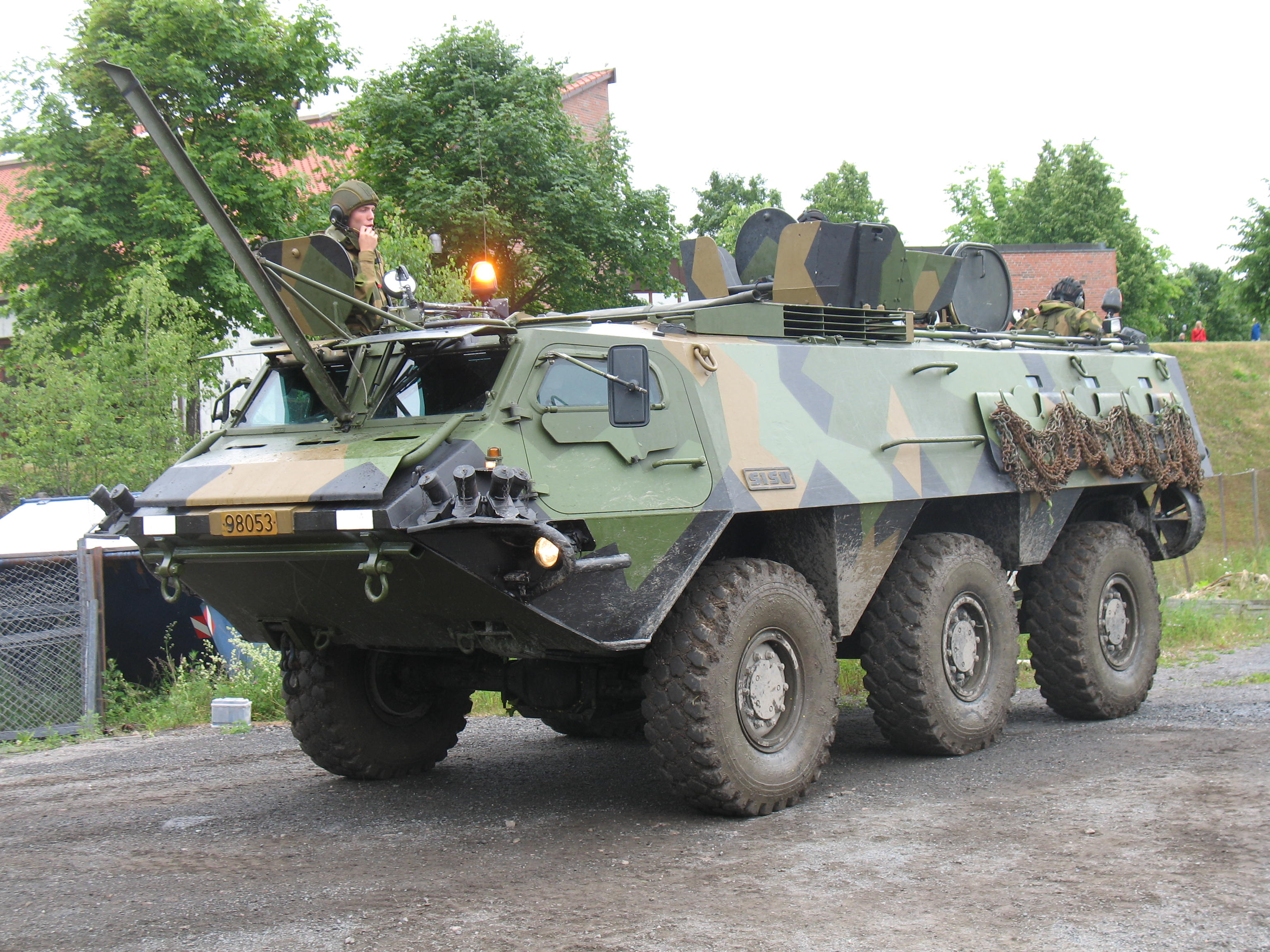 Norwegian Sisu XA-185, belonging to the Royal Guards (Hans Majestet Kongens Garde)